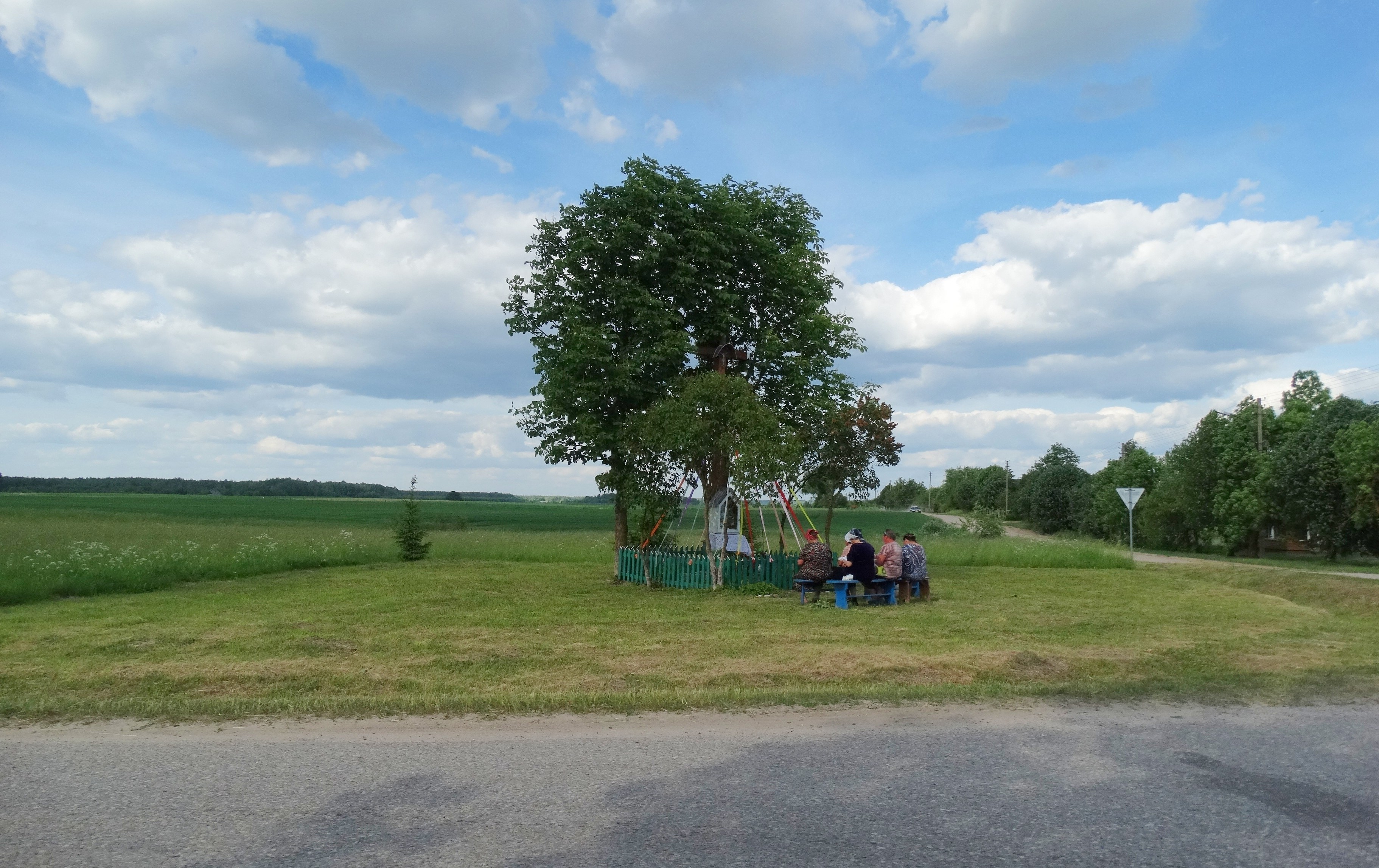 Prienai, Švenčionys District, Lithuania